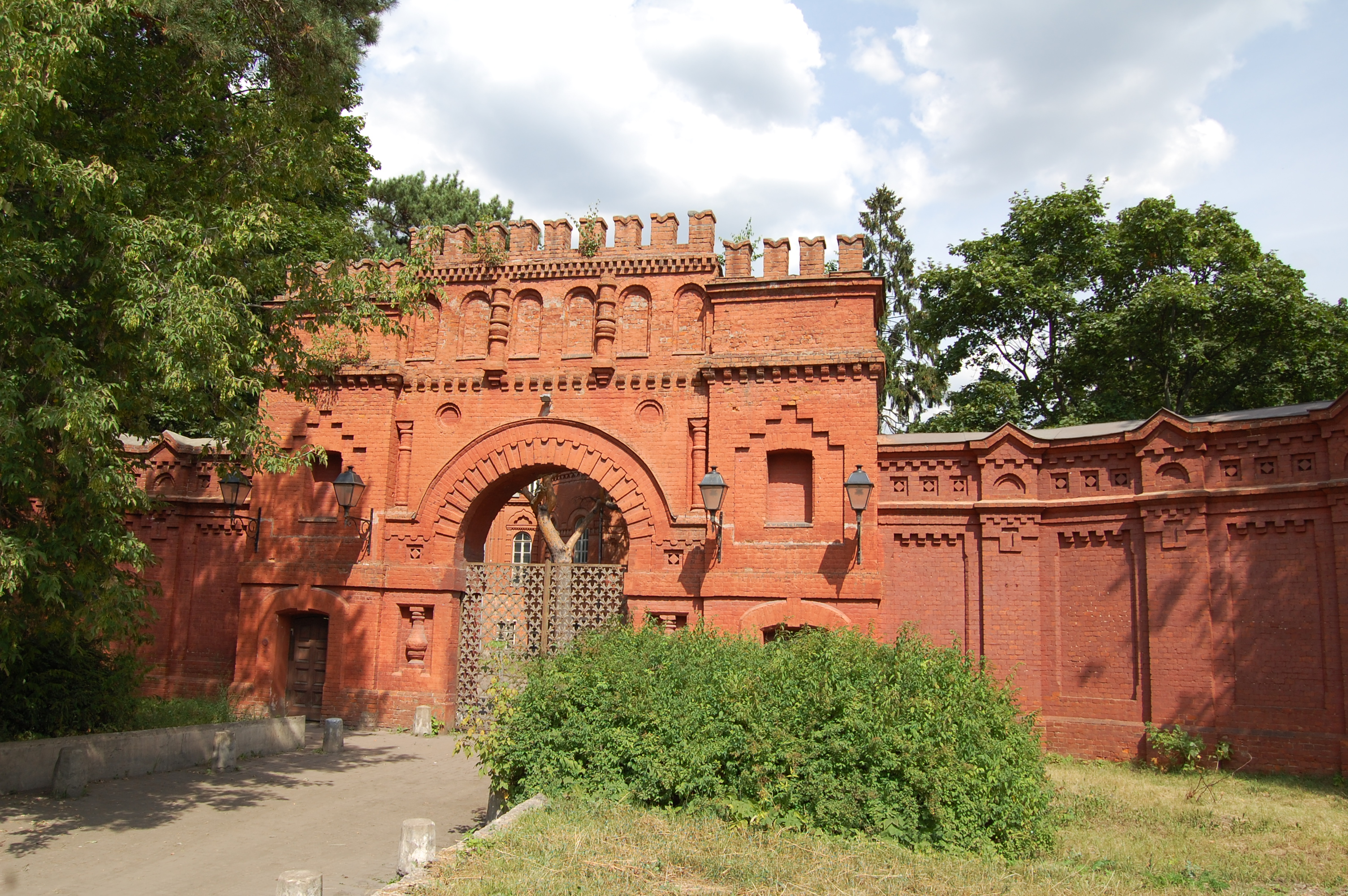 Pokrovskoye-Streshnevo estate in Moscow, Russia